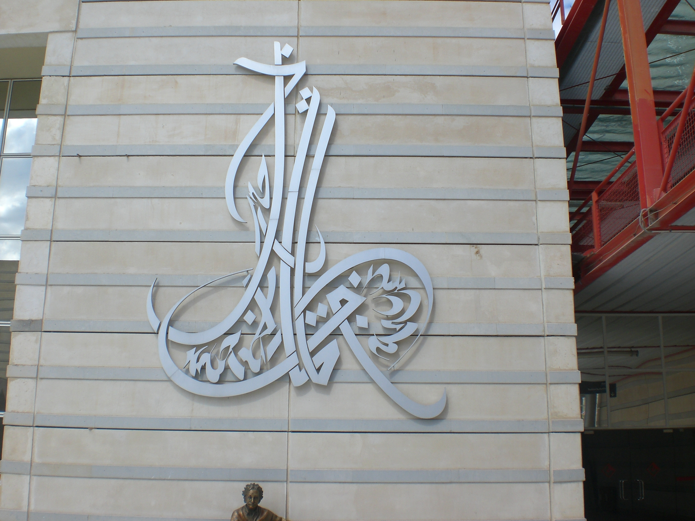 This is a photo of Cité des Sciences of Tunis